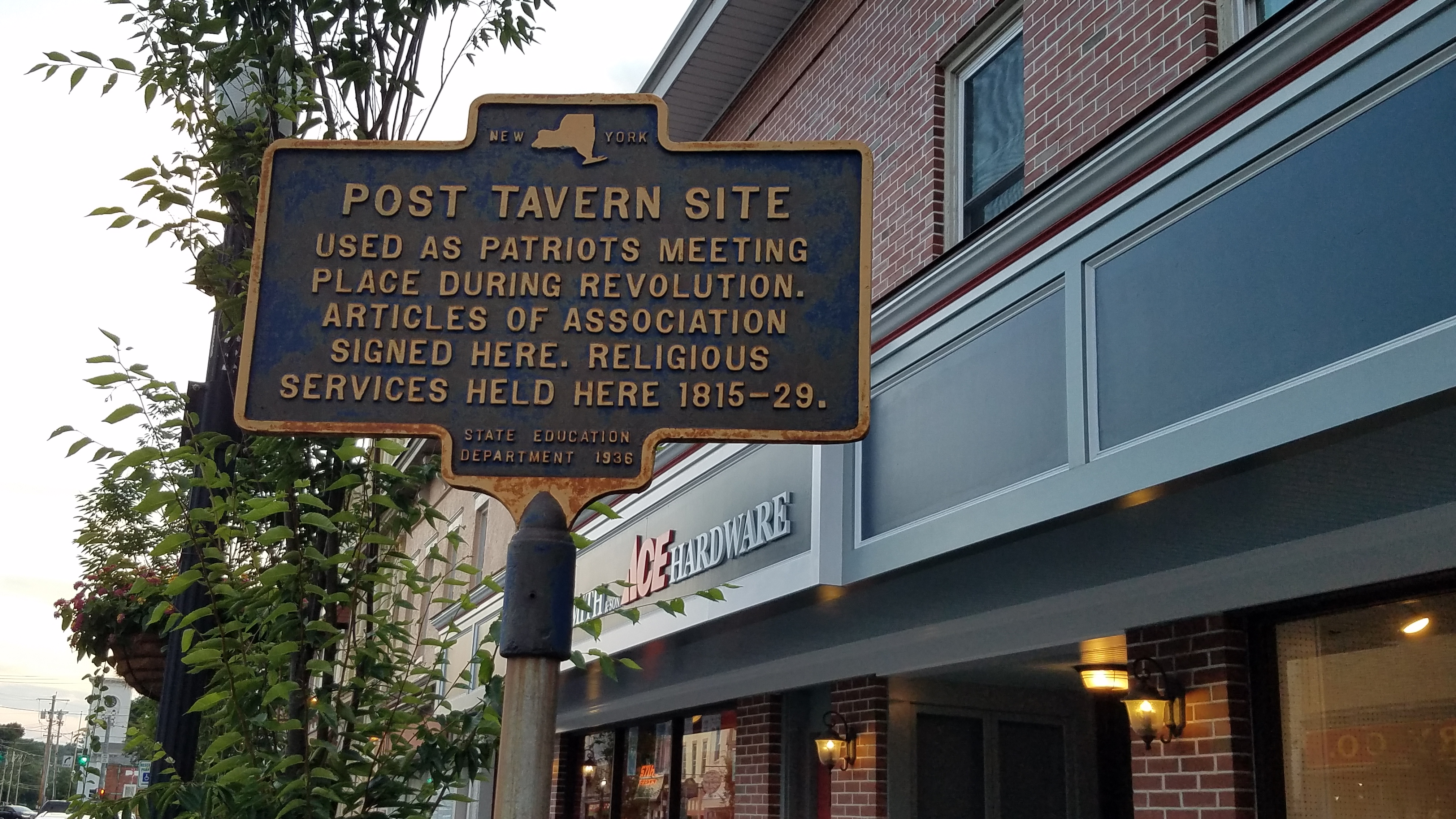 New York State historic marker for the Post Tavern Site in Saugerties, New York..